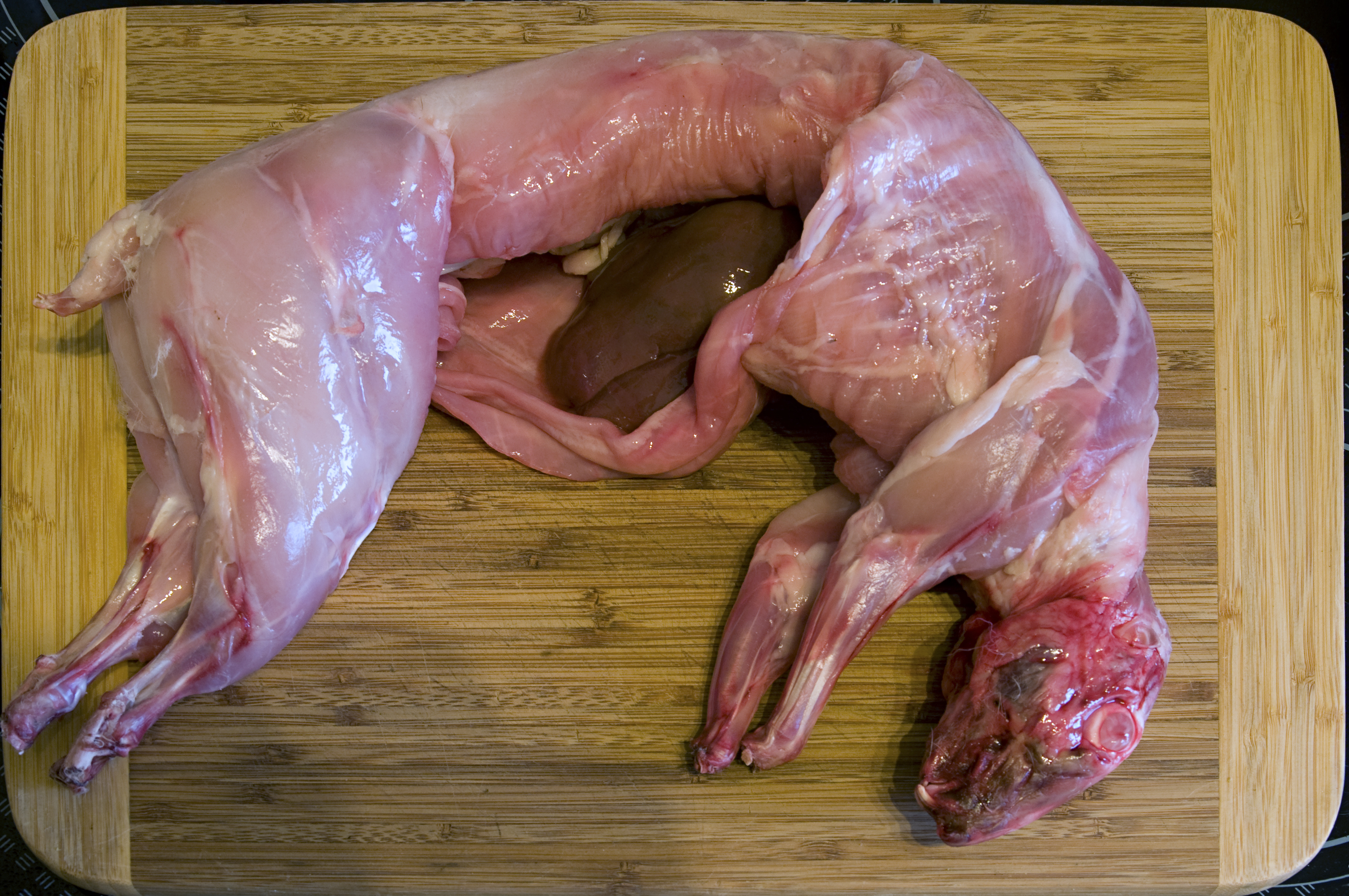 Slaughtered rabbit